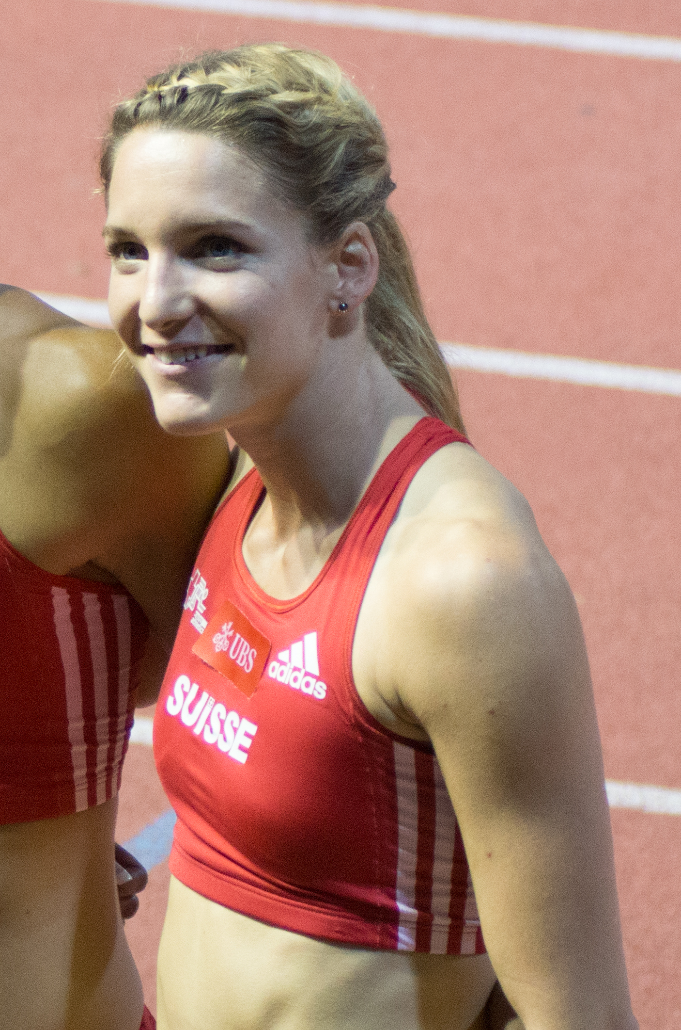 The making of this document was supported by Wikimedia CH. (Submit your project!) For all the files concerned, please see the category Supported by Wikimedia CH. Athletissima 2012 : Léa Sprunger, Mujinga Kambundji, Ellen Sprunger et Michelle Cueni